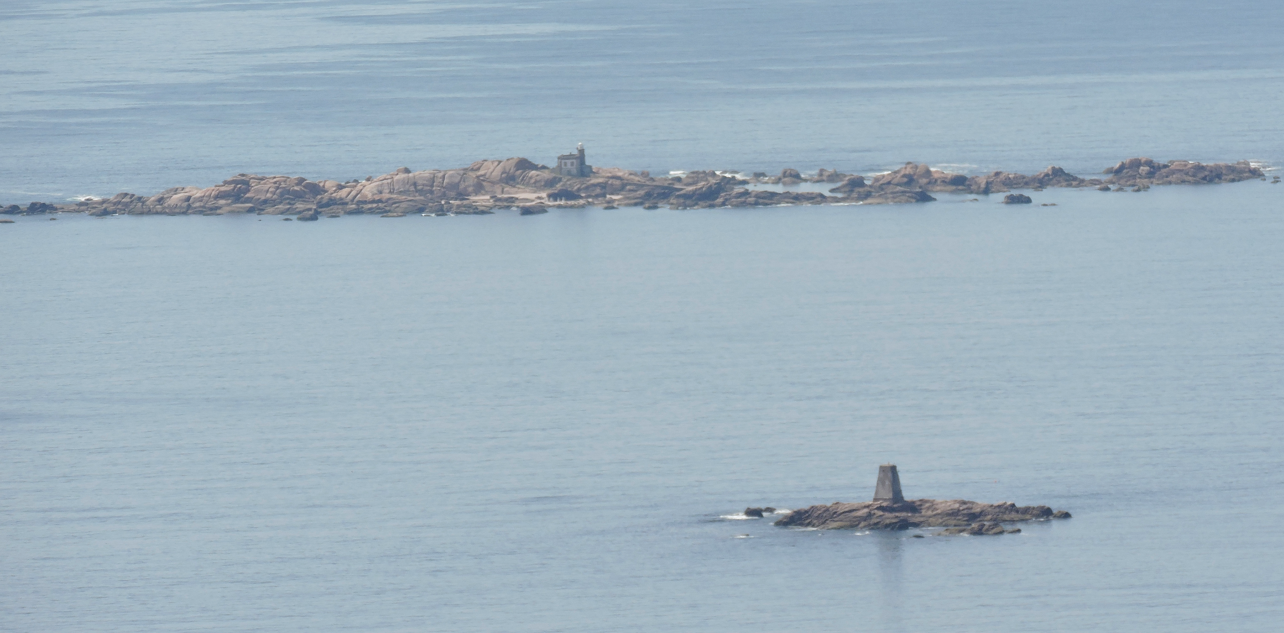 Islas Lobeiras (Galicia, Spain)